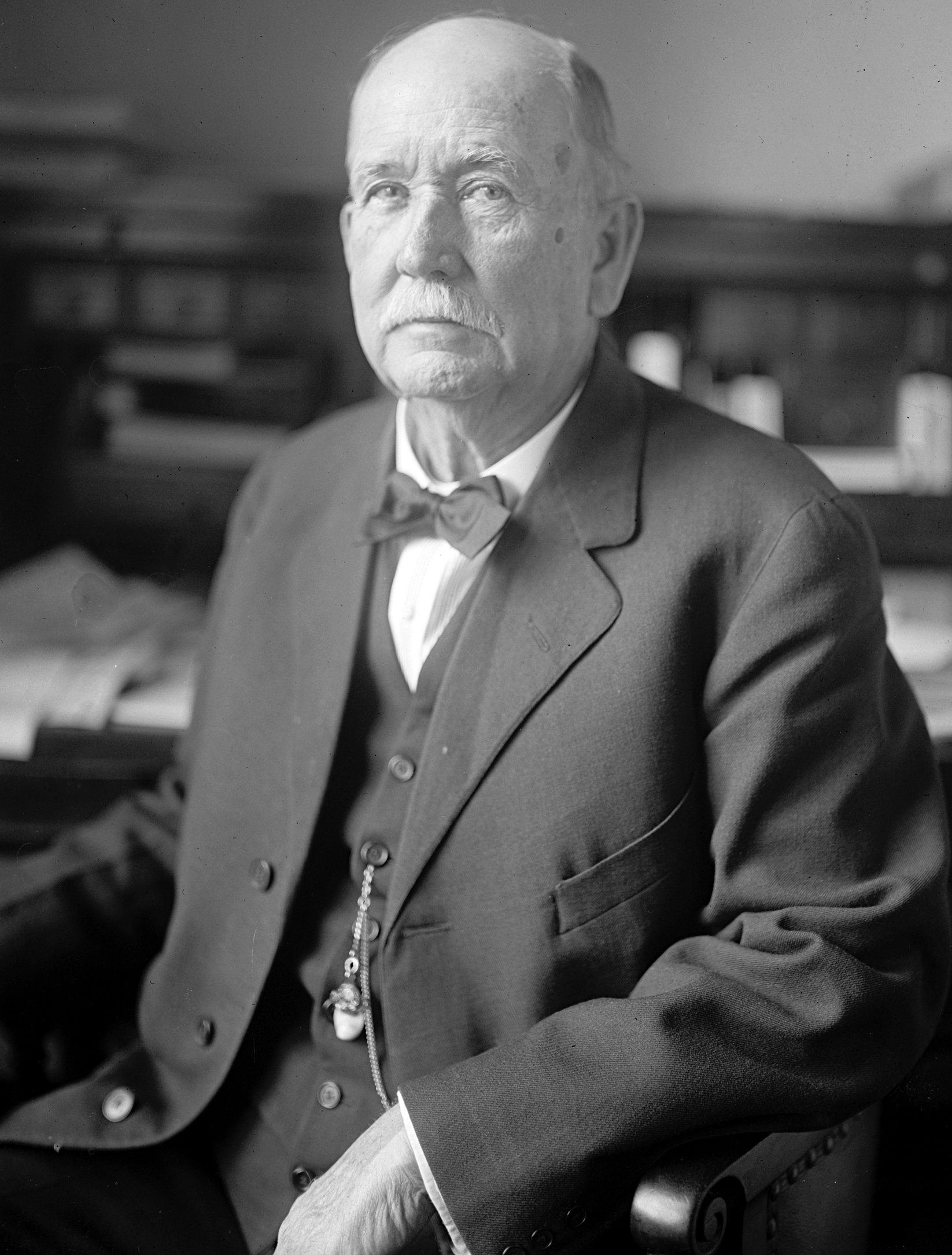 Clement C. Dickinson, US Representative from Missouri